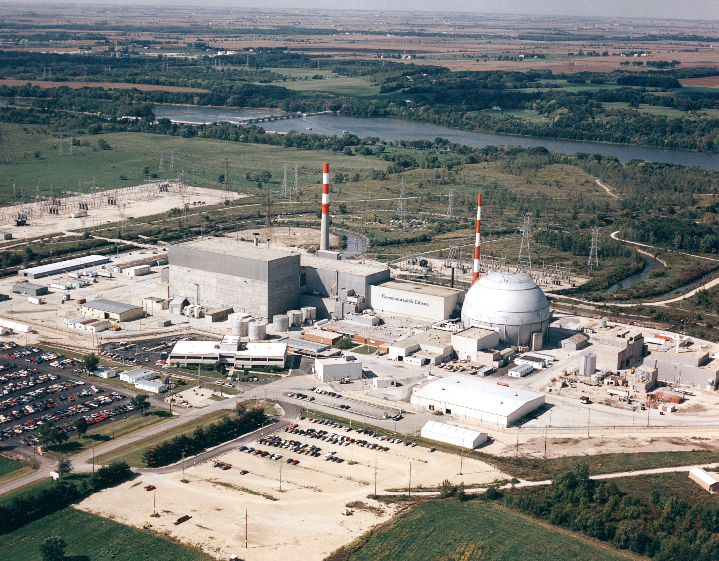 Dresden Nuclear Power Station, Unit 1. The nuclear power plants are located near Morris, IL (25 M SW of Joliet, IL) in NRC Region III.